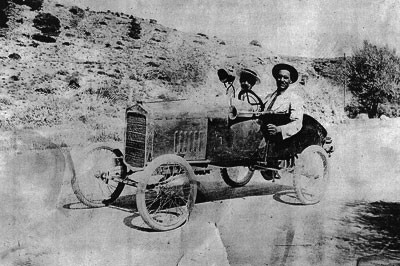 Theologou light car (tourer)